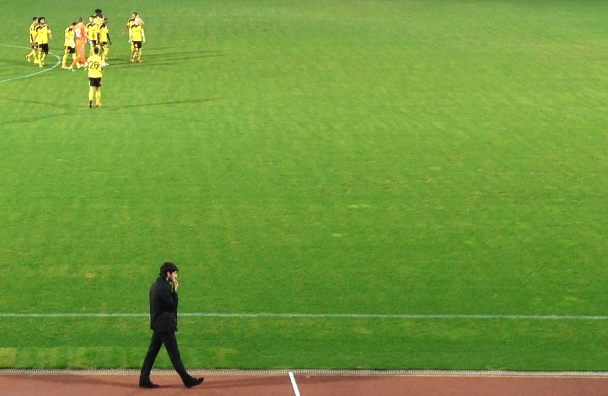 Juan Ferrando in Tiraspol